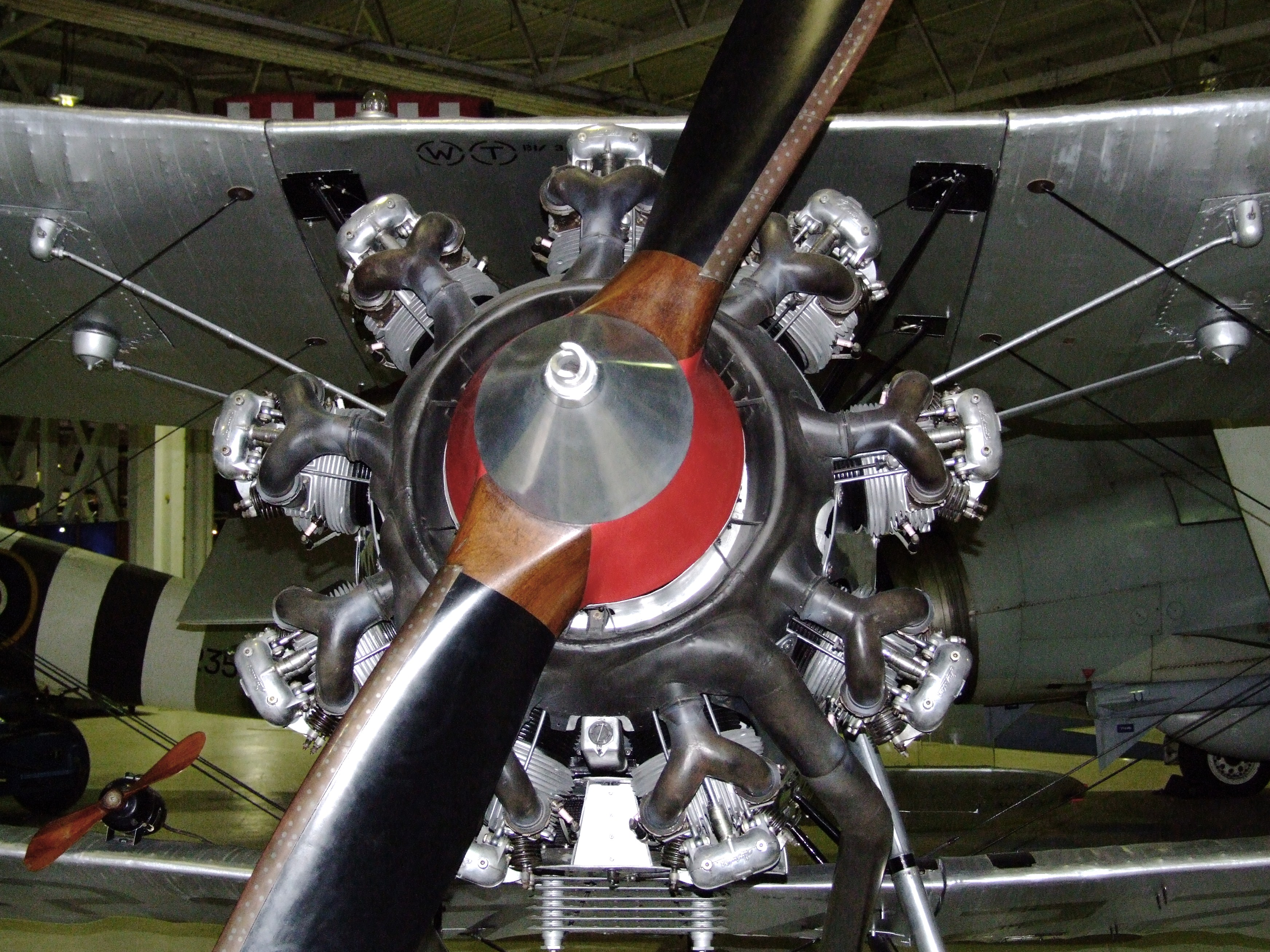 Bristol Bulldog with Bristol Jupiter engine, at the Royal Air Force Museum London.